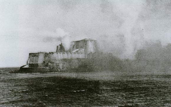 Morro Castle during the May 12, 1898 engagement.